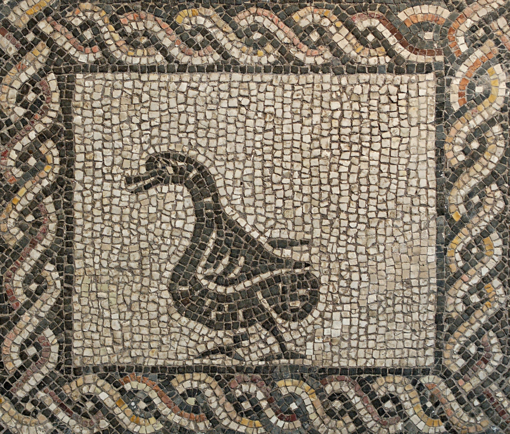 Pavement mosaic with a duck. Roman artwork, 3rd century CE. From the area of the Monte della Giustizia in Piazza della Stazione Termini, in Rome.